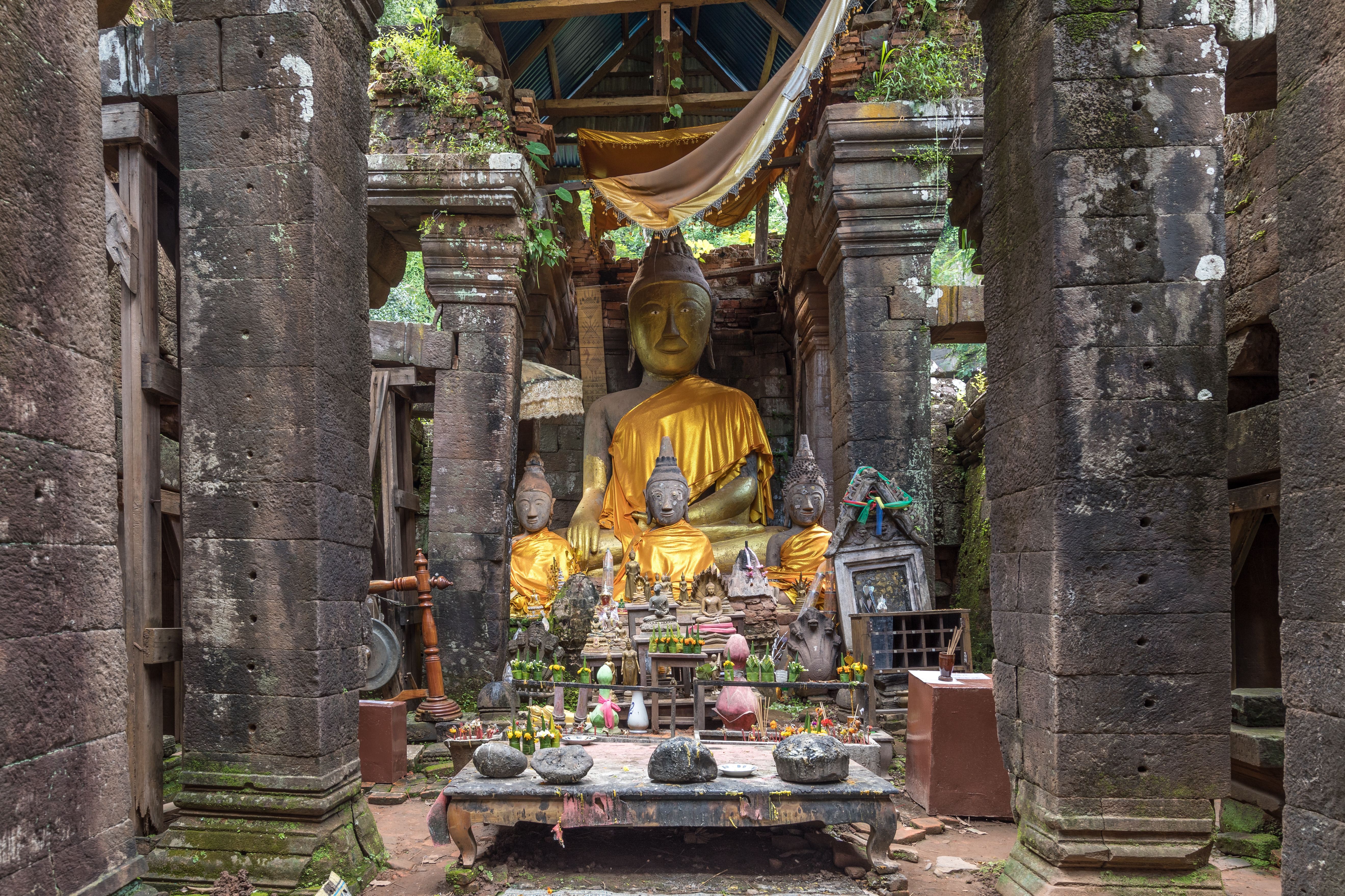 Clothed statues of the Buddha seated, table with stones and Buddhist relics, inside the ruined Khmer Hindu temple complex of Wat Phou, Champasak Province, southern Laos.